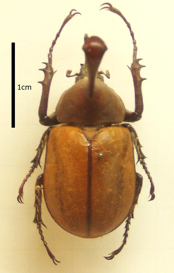 Golofa claviger (Scarabaeidae), mounted specimen from Central America.